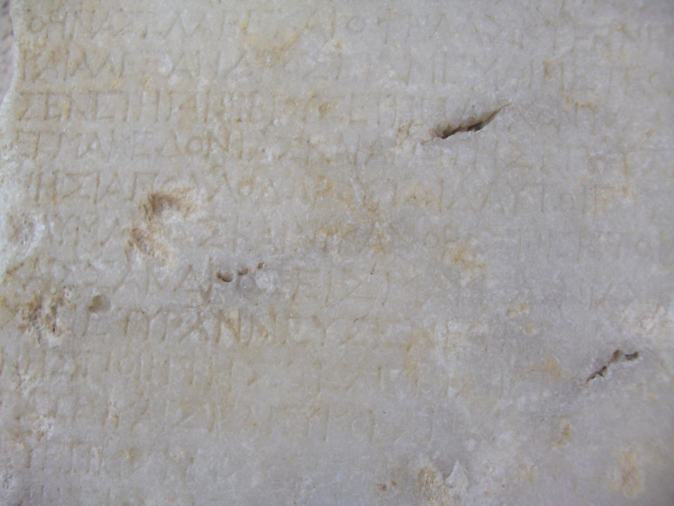 The Parian Chronicle. Detail from the smaller fragment of the chronicle, covering the years 356-299 BC.